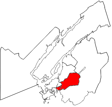 The riding of Saint John East in relation to other electoral districts in Greater Saint John.